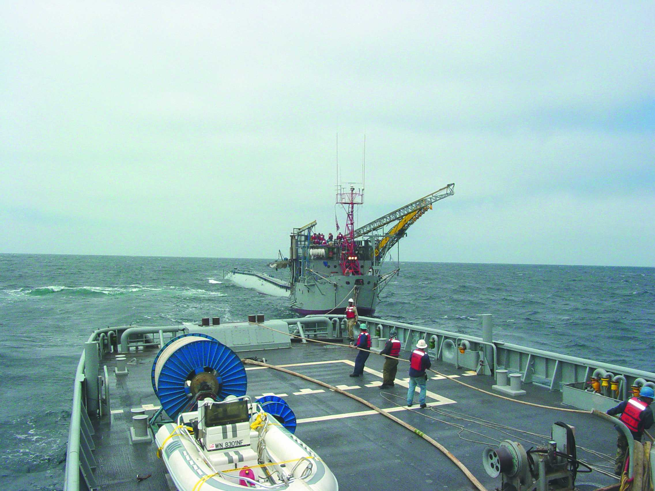 View of the Floating Instrument Platform (R/P FLIP) from Powhatan class ocean tug USNS Navajo, October 2003